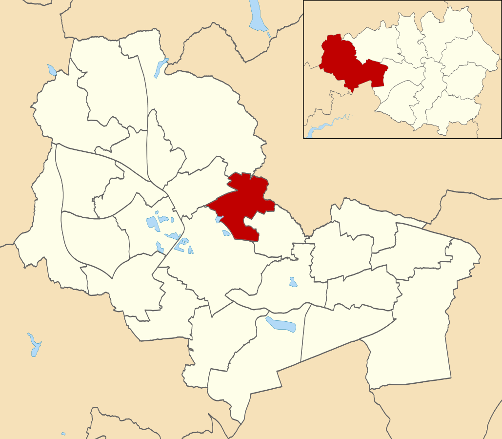 Map showing the location of Hindley ward within Wigan Metropolitan Borough Council